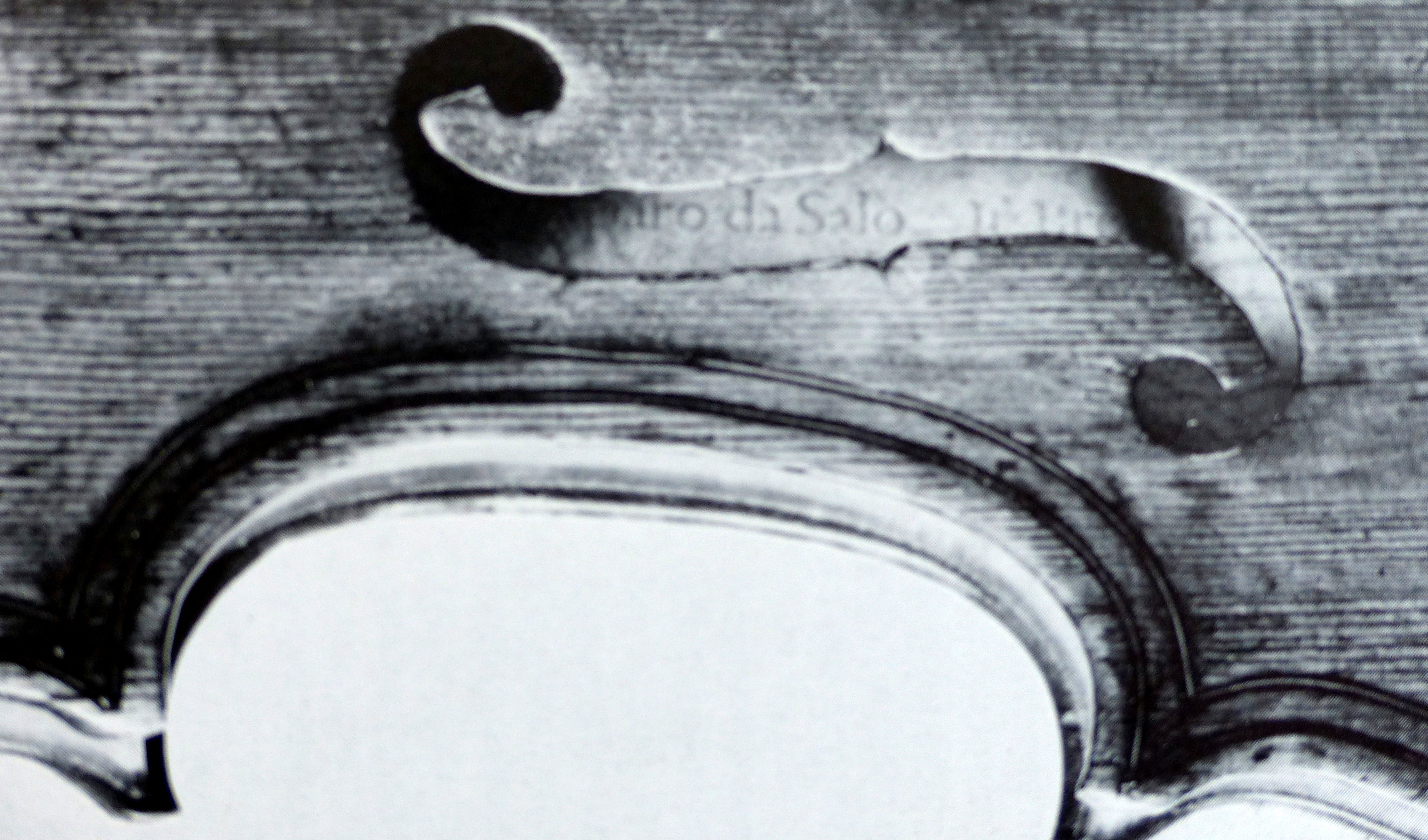 Viola, made by Gasparo da Salò In Brescia; label